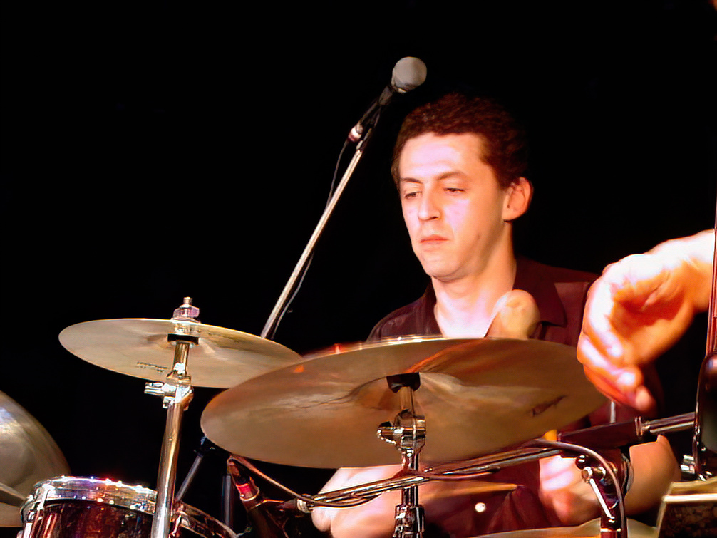 Karim Ziad, Jazz Club Unterfahrt, Munich/Germany, Feb. 22nd, 2002